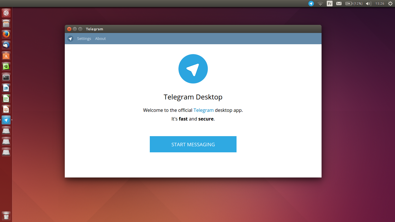 Telegram Desktop v 0.9.15 on Ubuntu 14.04